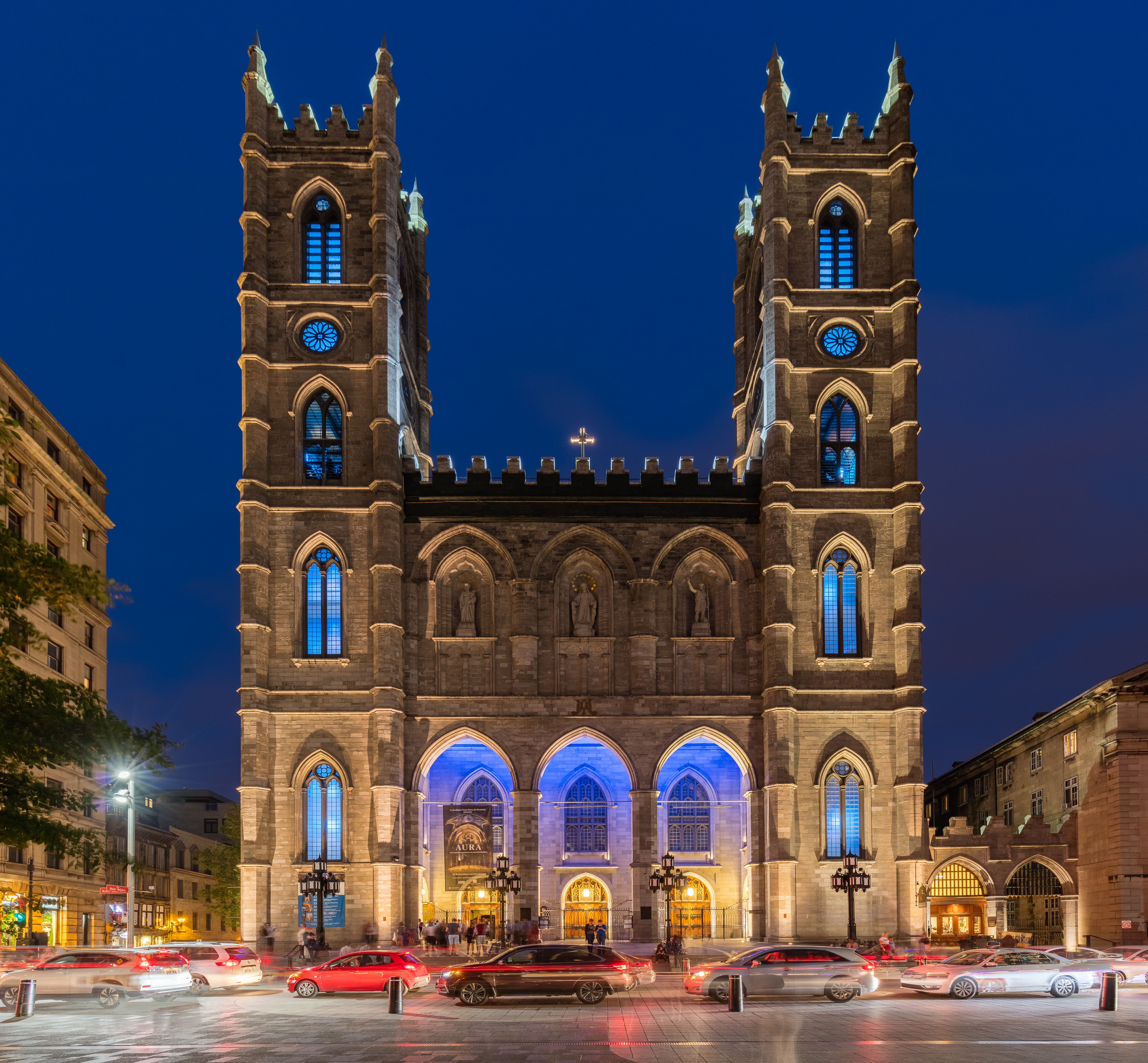 Notre-Dame de Montréal Basilica